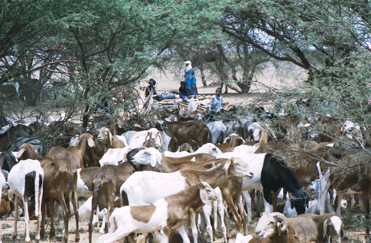 Tuareg herders with their goats, somewhere in Niger, 2003